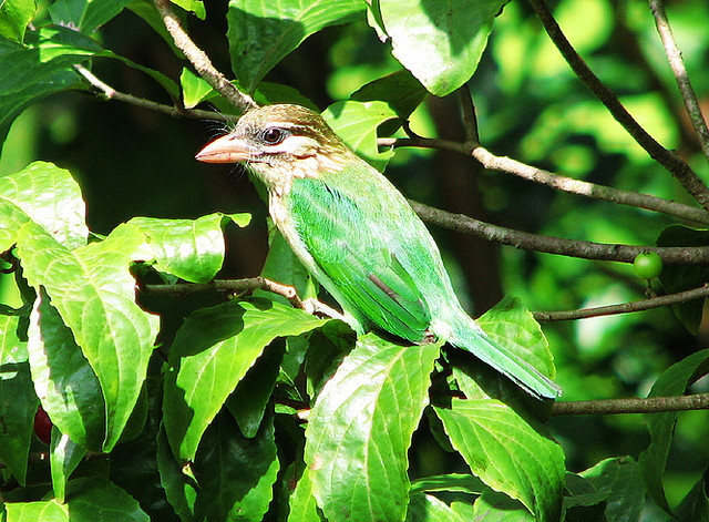 A White-cheeked Barbet in Thrissur District, Kerala, India.